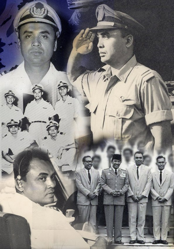 Captain Partono's Photo Collage during his service as pilot for Garuda and Indonesia Dwikora II's minister of aviation